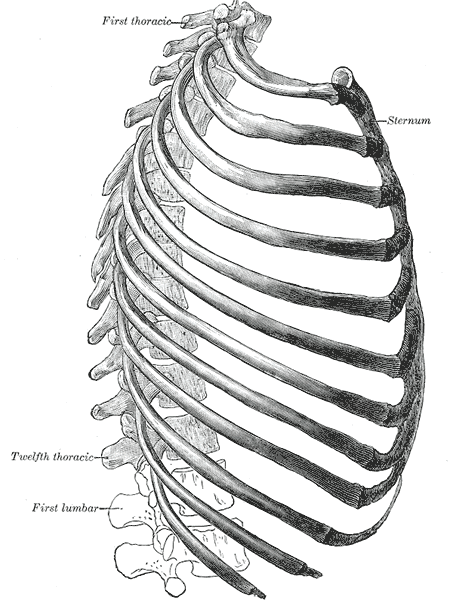 The thorax from the right. (Spalteholz.)